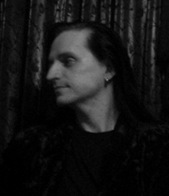 Cameron Rogers, at home.